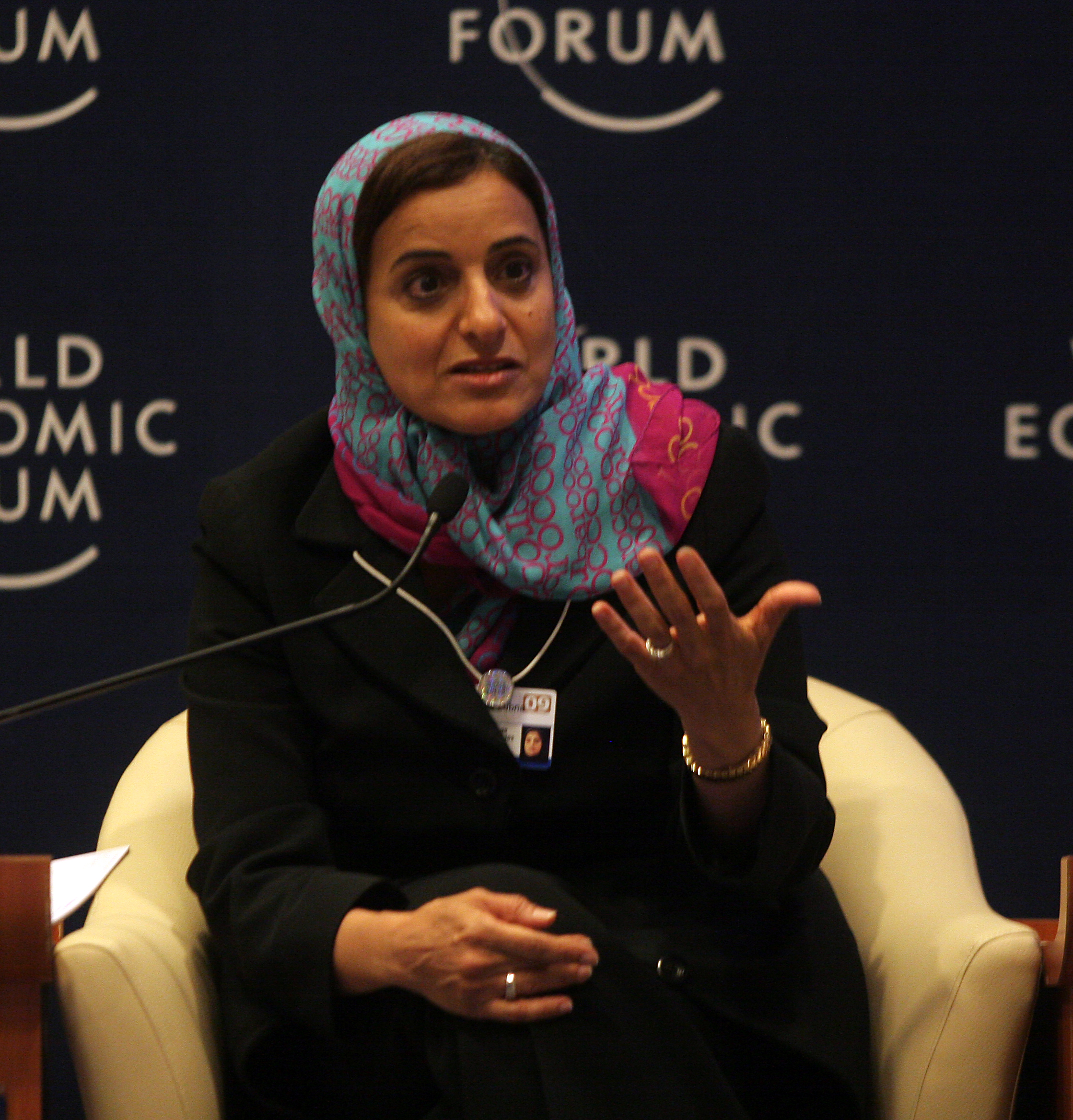 DEAD SEA/JORDAN,16MAY09 - H.E Sheikha Lubna Al Qasimi, Minister of foreign Trade of United Arab Emirates, speaks during "Women with a Buisness Impact " session at the World Economic Forum on the Middle East at the Dead Sea, Jordan, Friday, May, 16, 2009. Copyright World Economic Forum ( by Nader Daoud